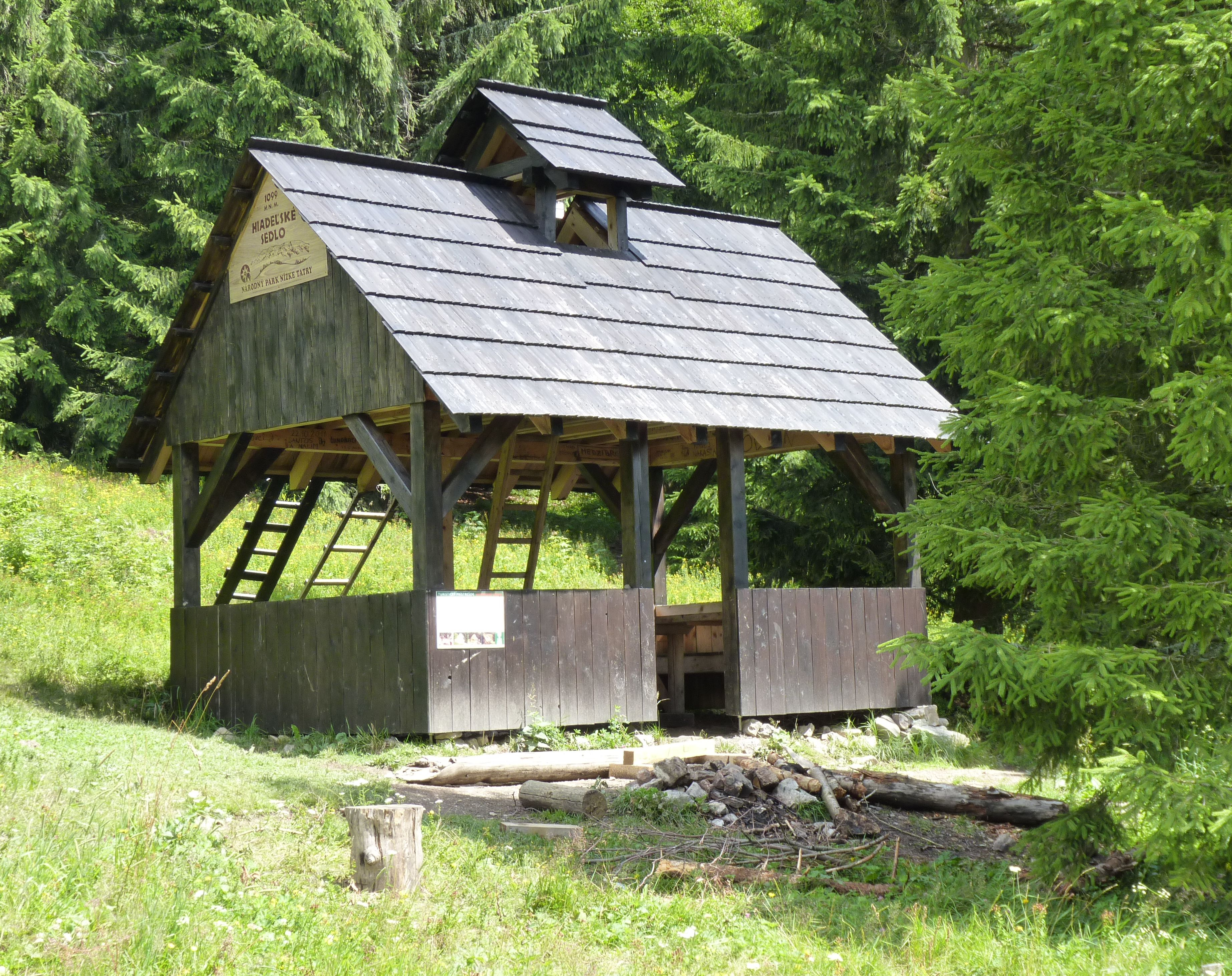 Hiadeľské sedlo. Low Tatras, Slovakia